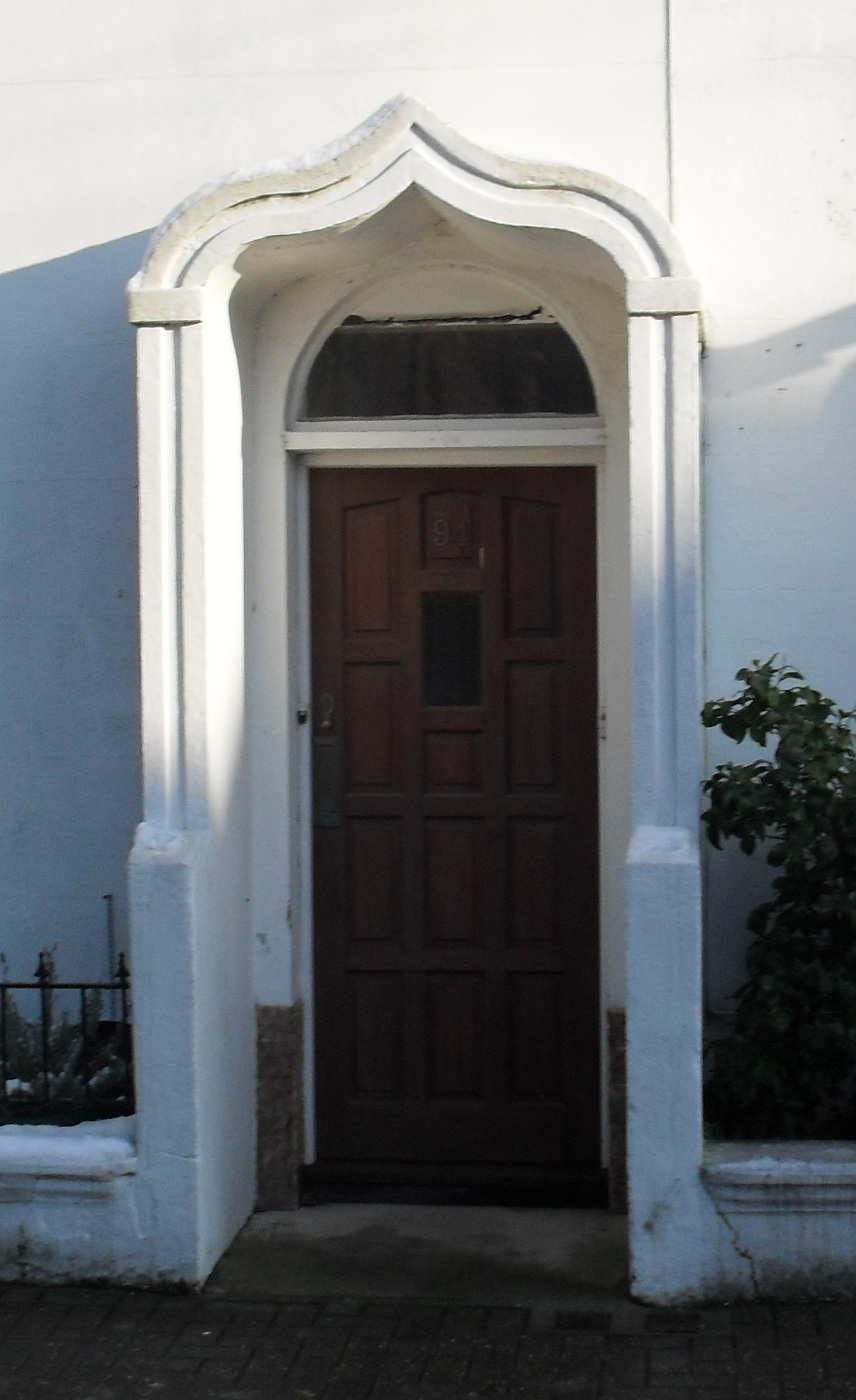 The boat porch of a house in Portland Road, Worthing, West Sussex, England. These features are characteristic of, and unique to, Worthing. There are examples on 19th-century cottages in several streets in the town centre.